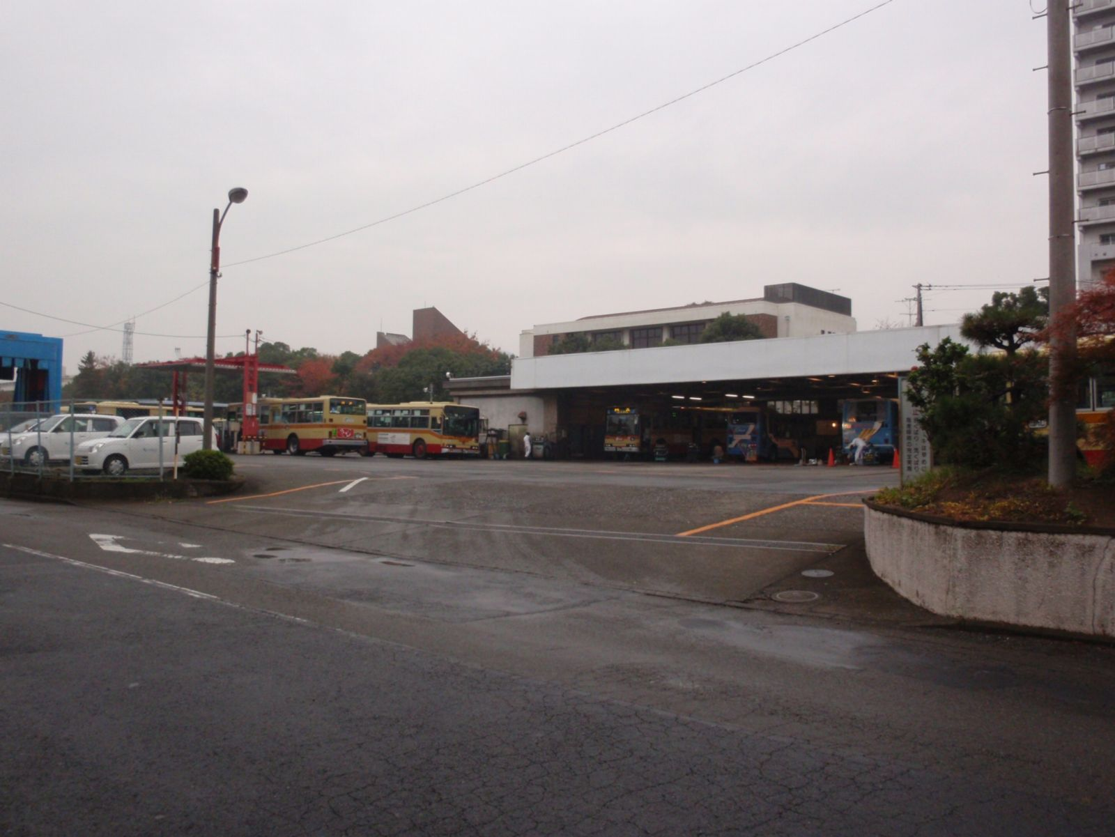 Kanachu Hiratsuka Branch (Yawata)